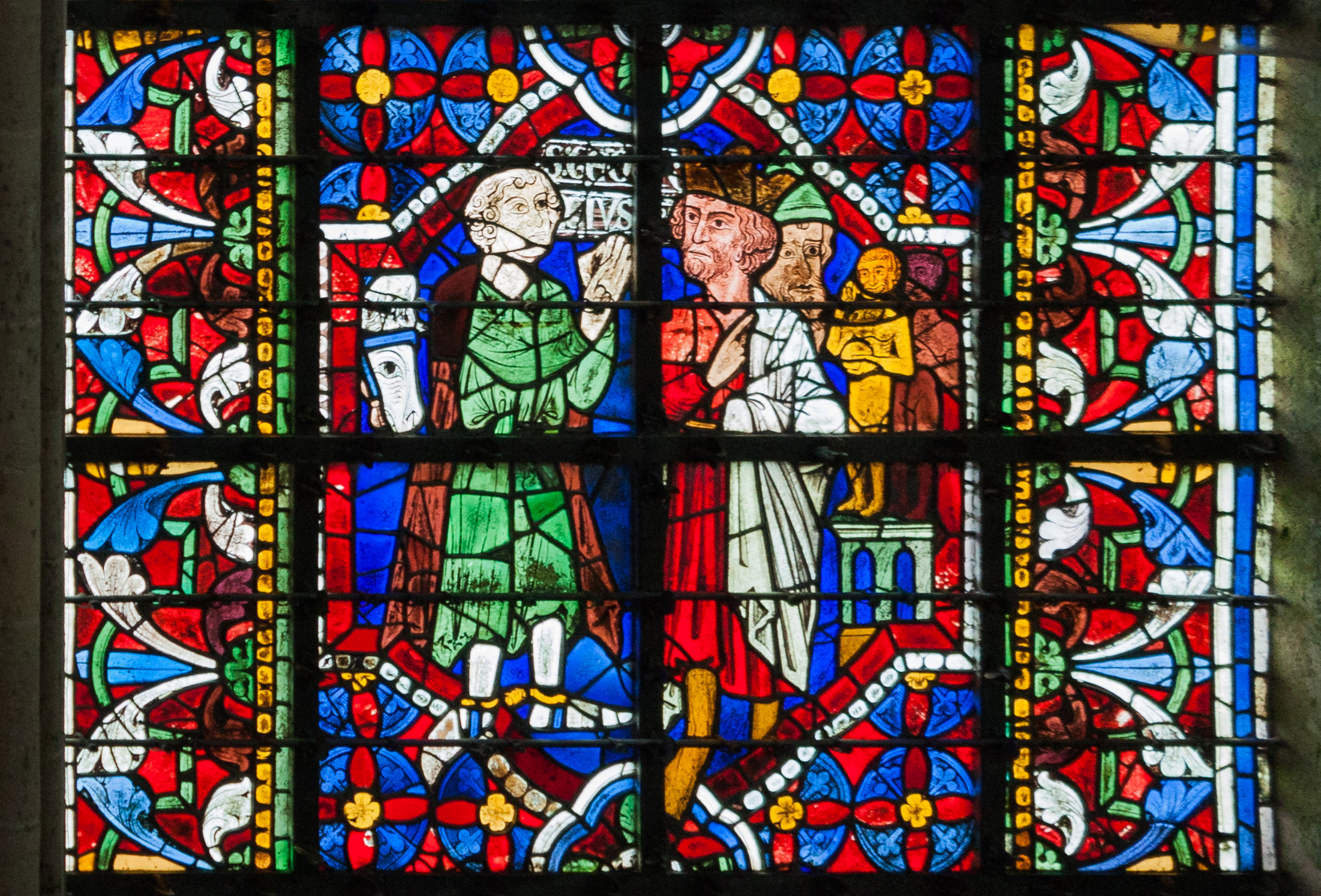 Second panel (of seven in total, counting from bottom to top) of the central light of the stained glass window in the 217th bay (north window of the north transept), created c. 1230–1240, depicting a scene from the life of Saint George where he is invited by proconsul Dacianus to offer a sacrifice to the Roman gods. See p. 137 in Martine Callias Bey and Véronique David: Les vitraux de Basse-Normandie, ISBN 2-84706-240-8.